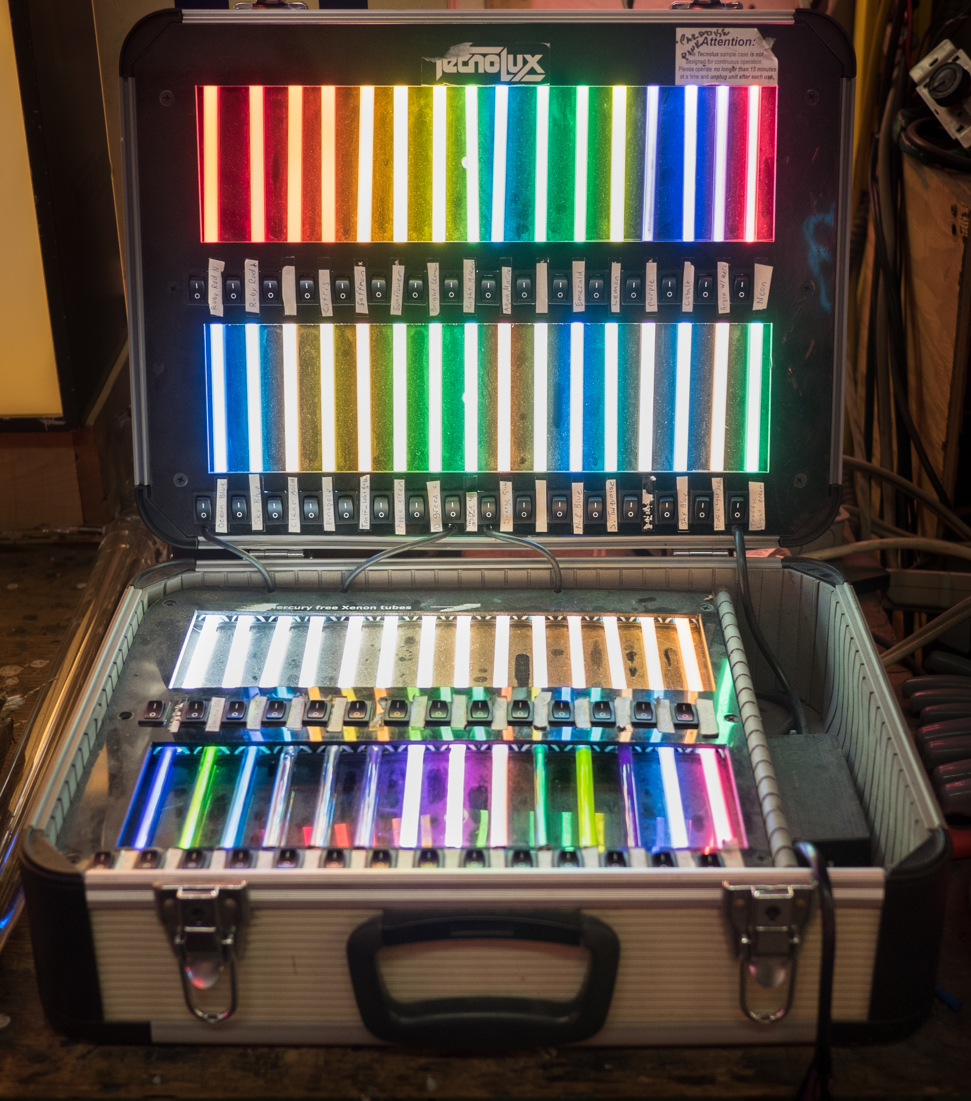 Tecnolux neon display at Brooklyn Glass Open House New York Weekend 2018